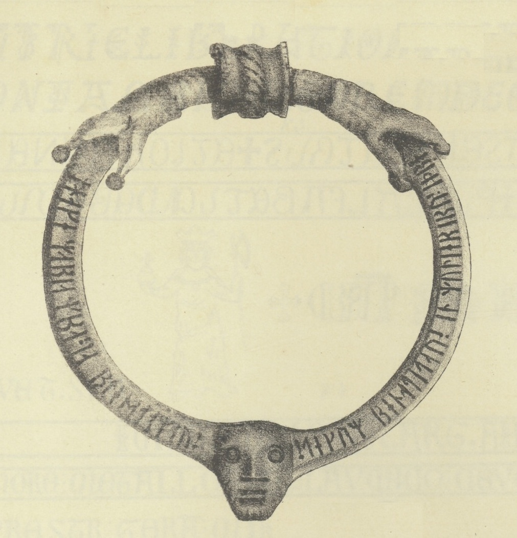 Drawing of door knocker with Runic inscription from Tønjum Stave Church in Lærdal, Sogn og Fjordane, Norway. The church collapsed in 1824, the door knocker came to Bergen Museum, Hordaland, Norway. The inscriptions is in latin and reads: "Ave Maria gratia plena. Dominus tecum benedicta tu in mulieribus, et be"